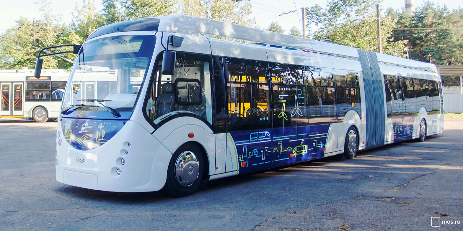 Belorussian electrobus E-433 on test in Moscow